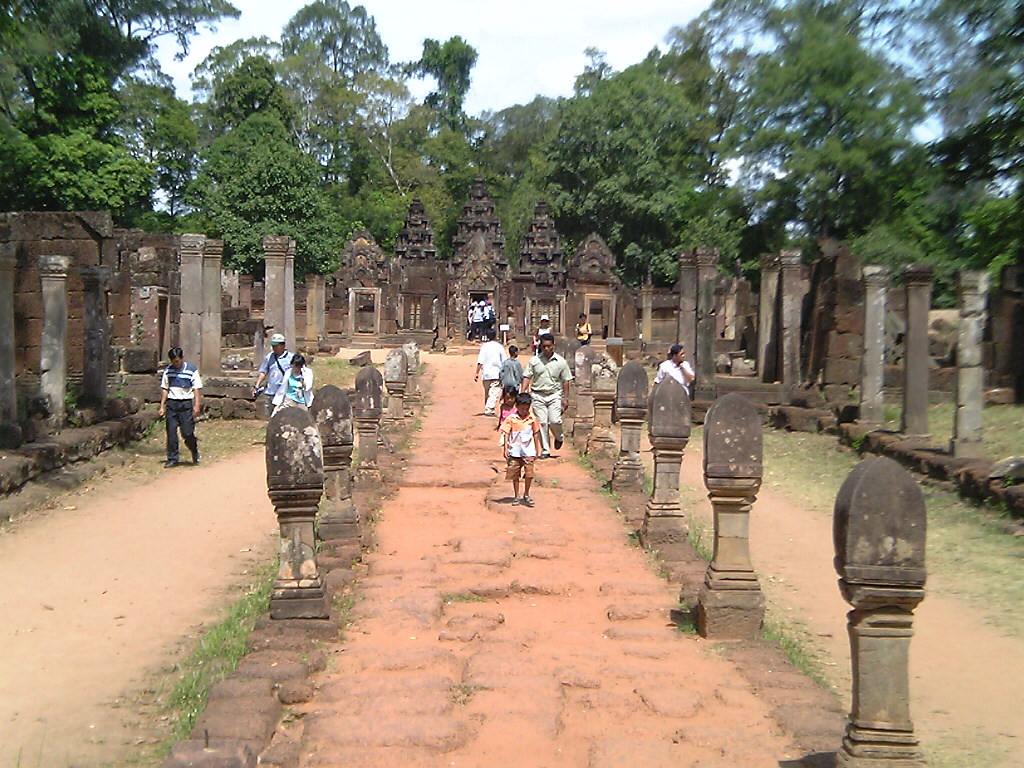 Courtyard at Banteay Srei temple — 10th century Khmer Empire architecture, in present day Cambodia.